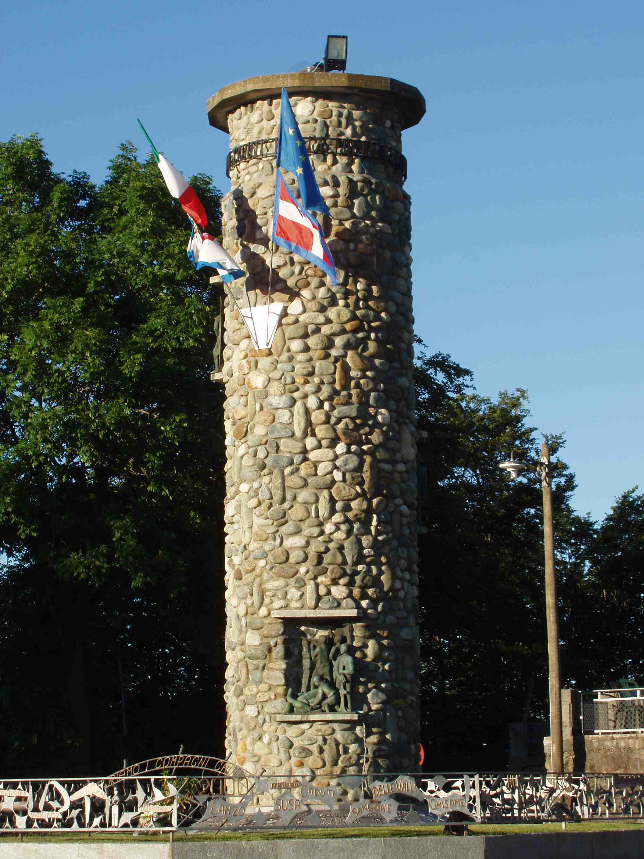 Lys Pass, the partisan's memorial